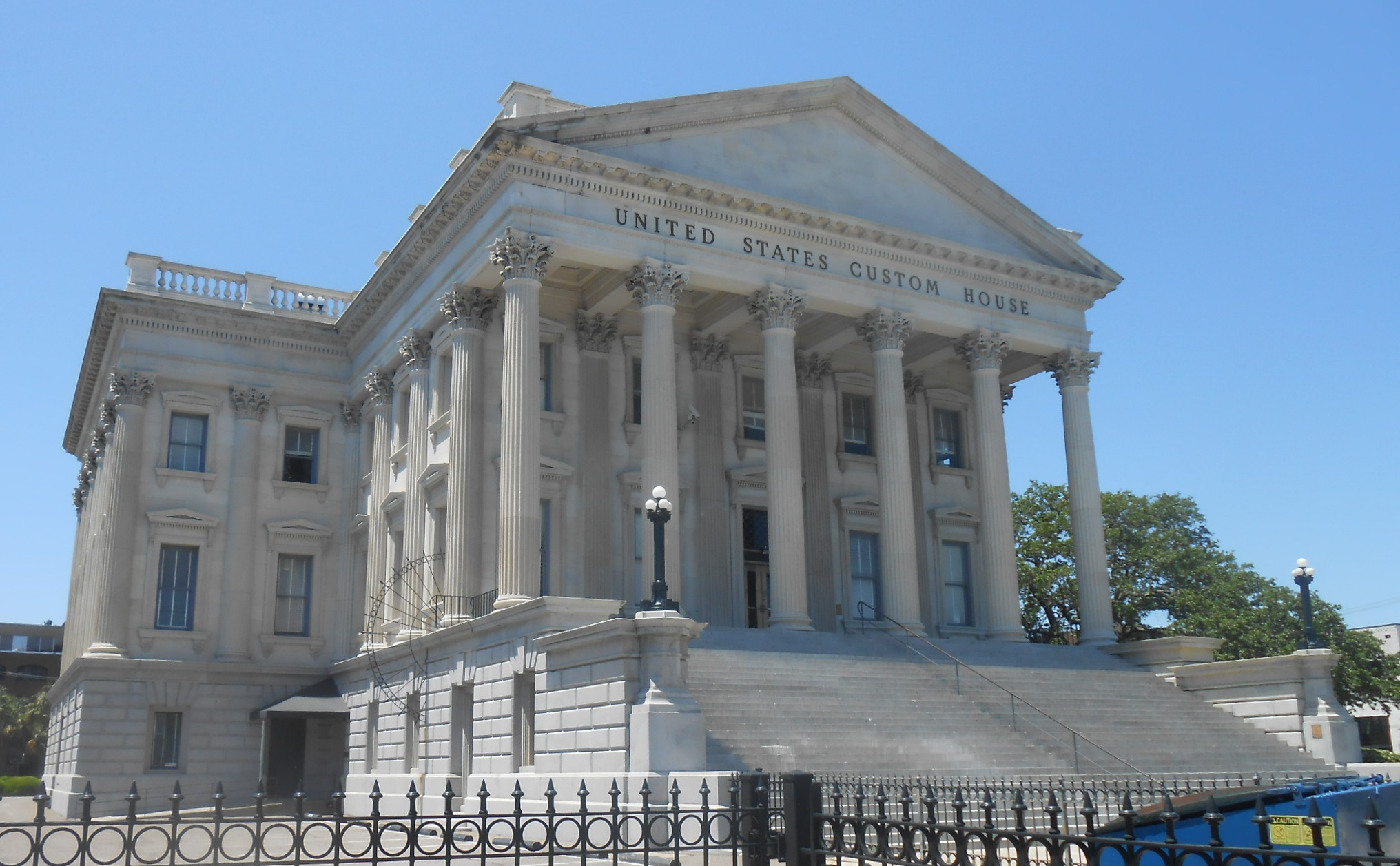 200 East Bay Street, Charleston, South Carolina